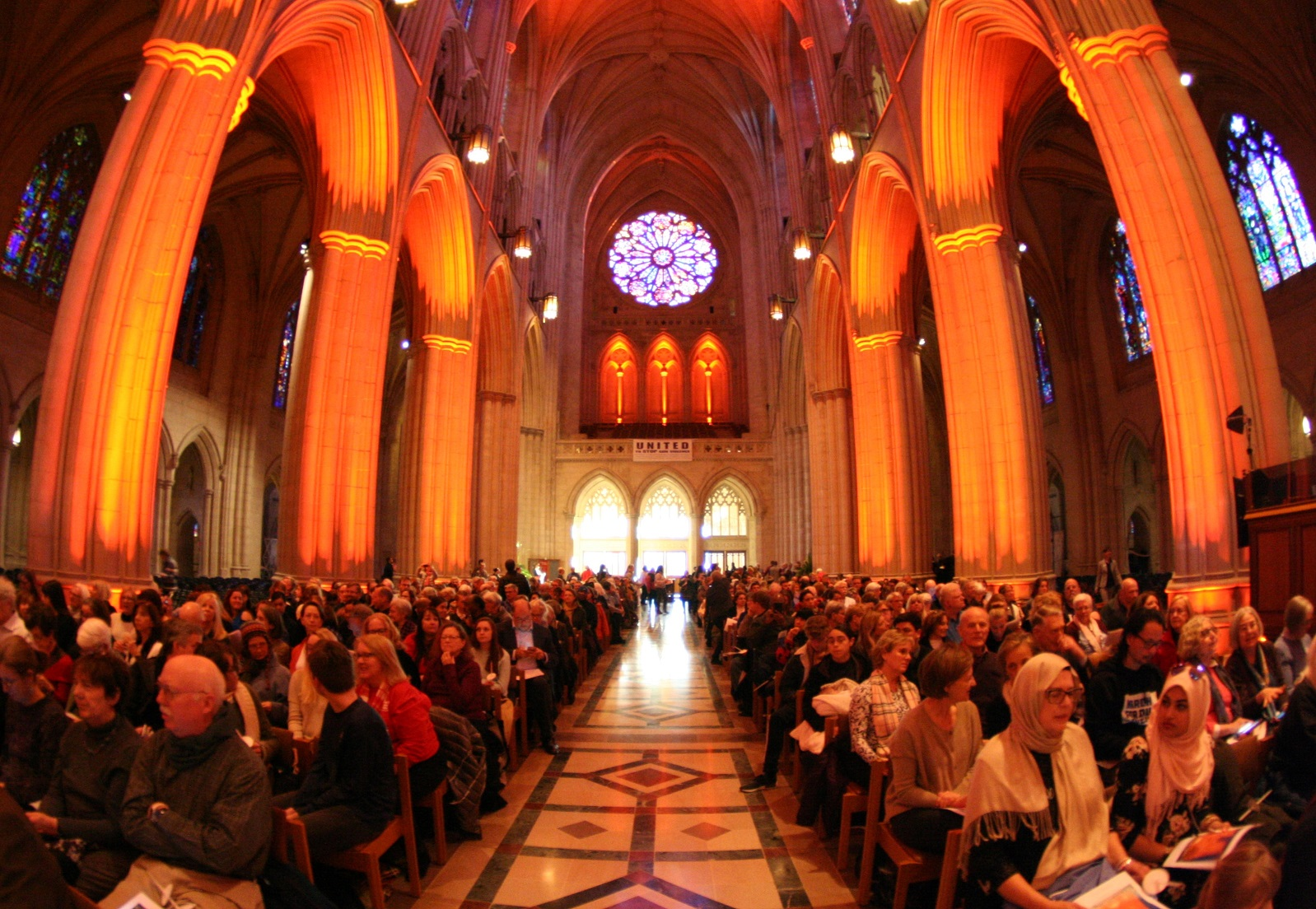 On the eve of the March for Our Lives rally, a prayer and vigil was held at the Washington National Cathedral. A banner hangs in the church which reads, "United to Stop Gun Violence" (Just barely visible in the center of the photo).